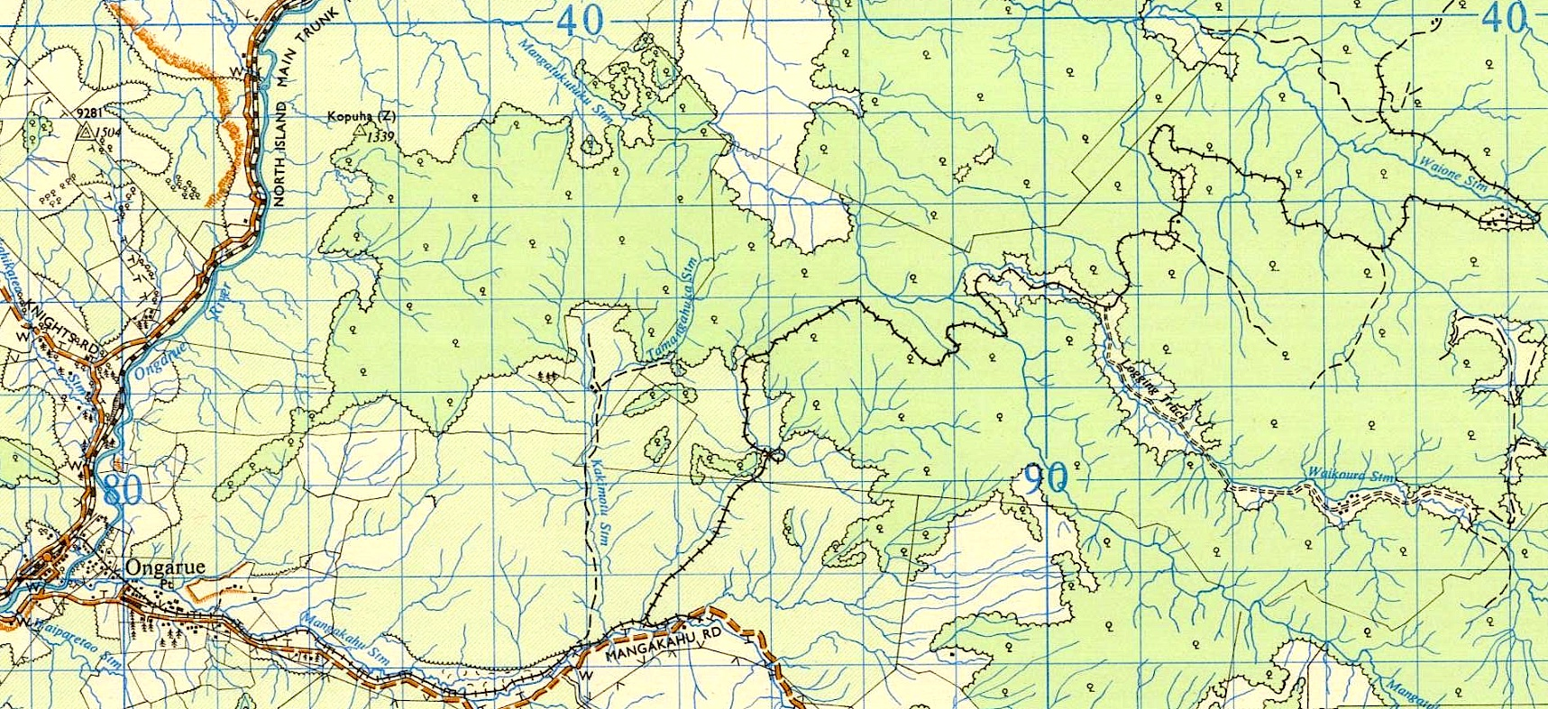 showing the Ellis and Burnand Ongarue tramway, now the Timber Trail